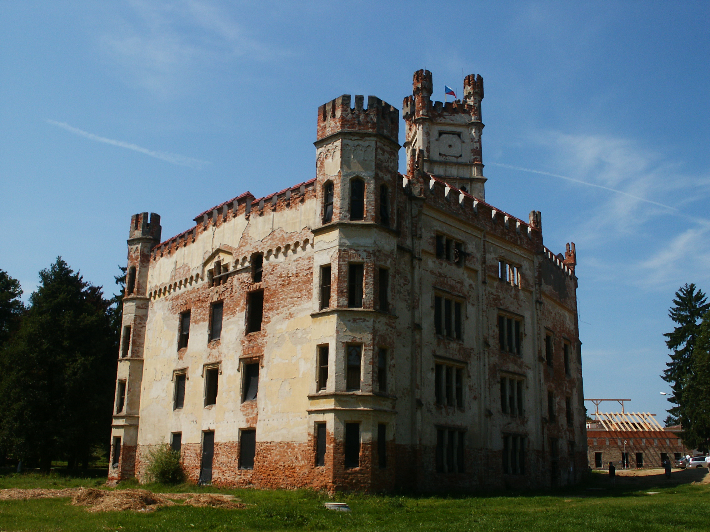 chateau Cesky Rudolec